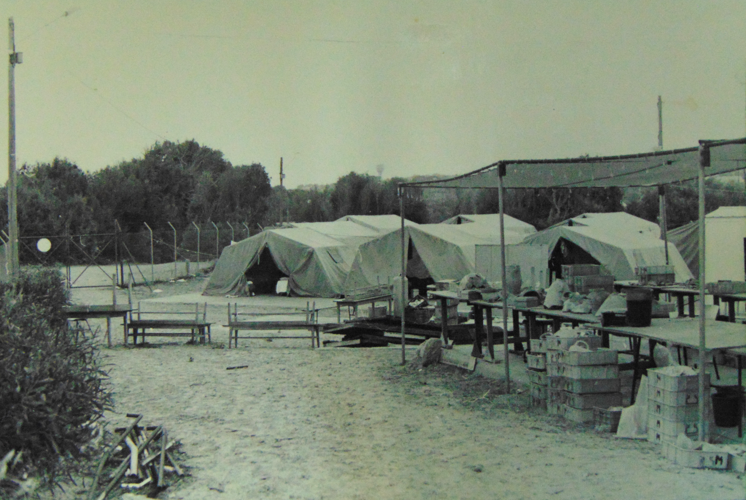 The Tel Michal campsite in 1979, showing the student tents and the pottery sorting tables.